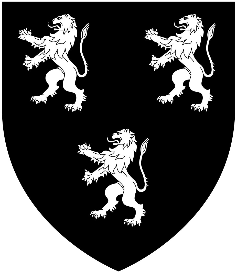 Arms of Prouse of Chagford; of Barnstaple and Tiverton, all in Devon: Sable, three lions rampant argent (Source: Vivian, Lt.Col. J.L., (Ed.) The Visitation of the County of Devon: Comprising the Heralds' Visitations of 1531, 1564 & 1620, Exeter, 1895, p.626)